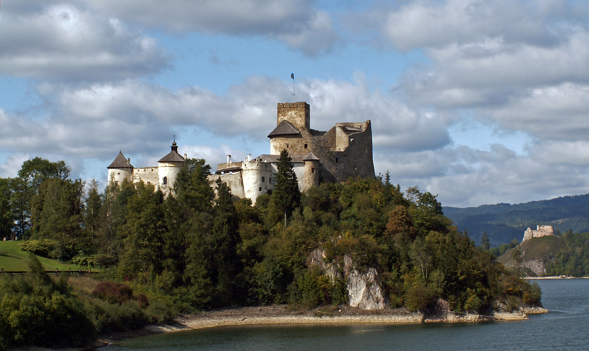 Niedzica Castle, Niedzica-Zamek village, Nowy Targ County, Lesser Poland Voivodeship, Poland